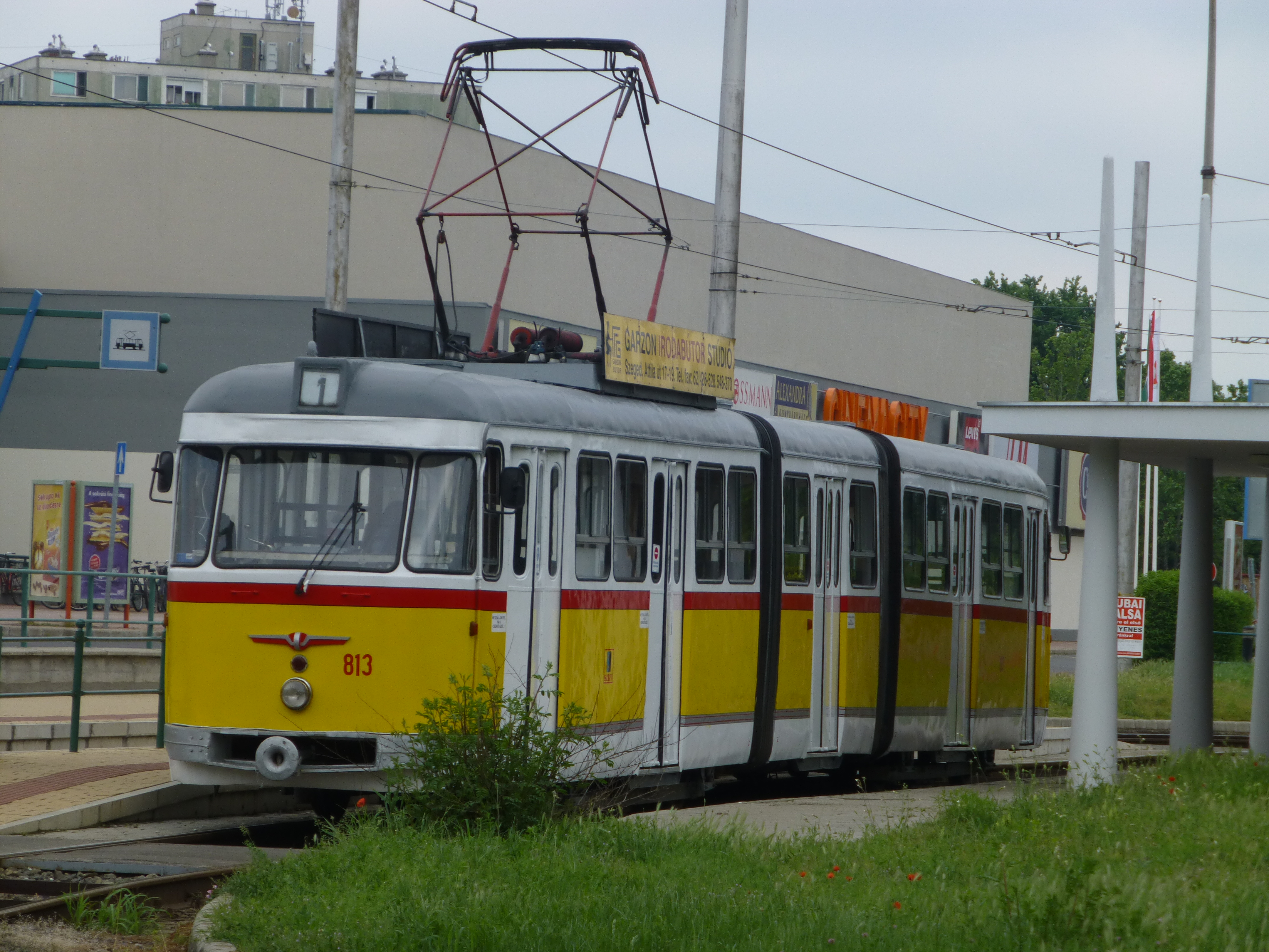 Ganz-built articulated tram, of the type nicknamed Bengáli, in service on tram line 1 in Szeged. Car 813 was built in 1972.